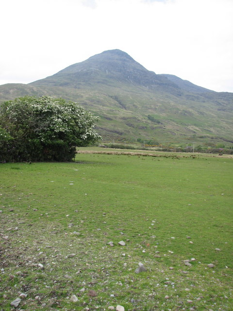 Ben Buie, showing edge of walled church land Showing old/raised beach as fields